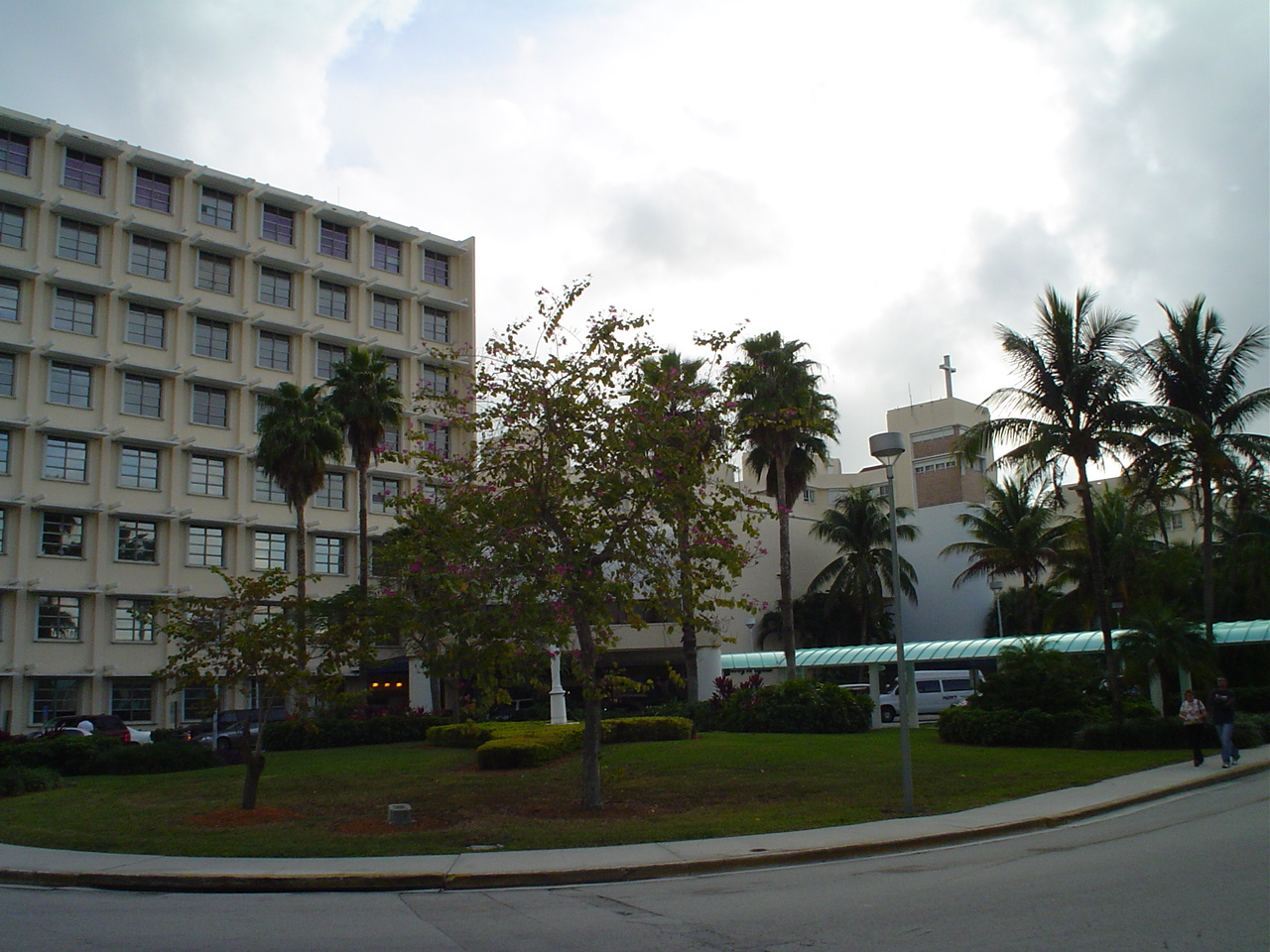 Mercy Hospital in Miami, Florida taken on Jan 22, 2008